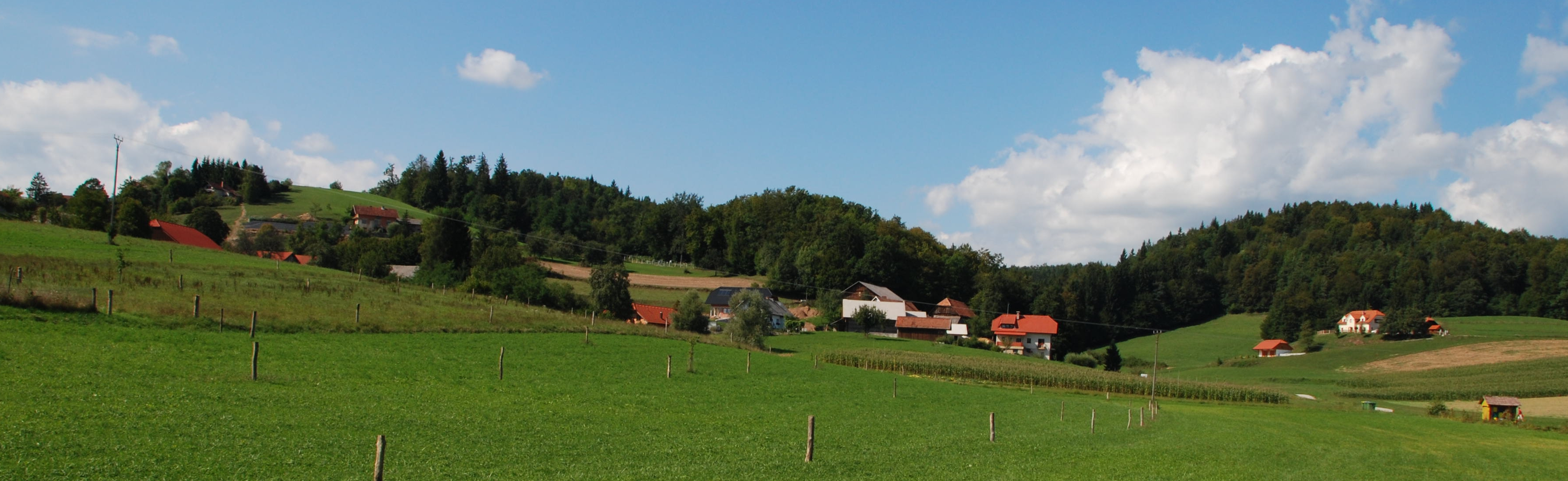 Trstenik, a village in the Municipality of Šentrupert, southeastern Slovenia.